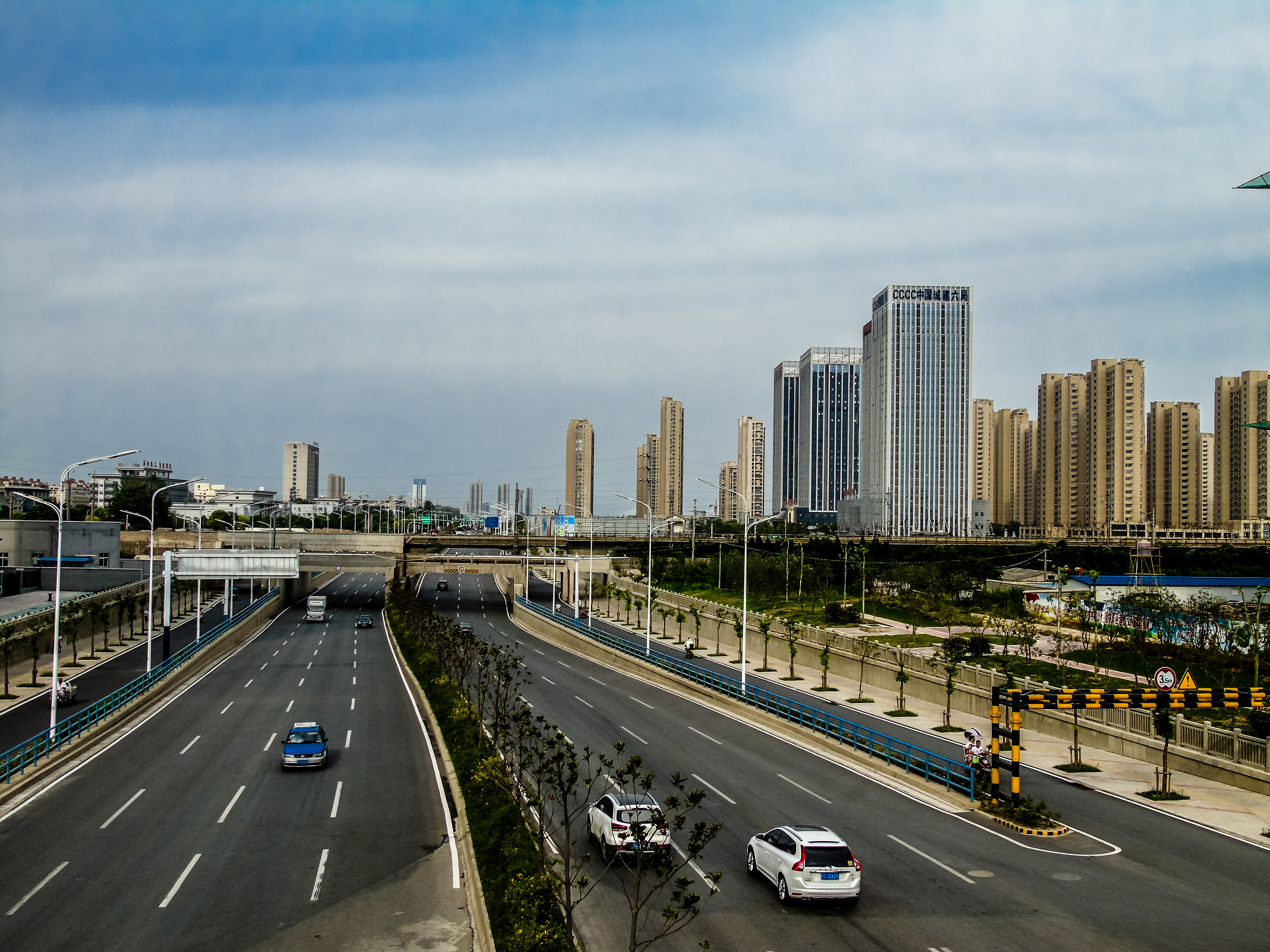 Bengbu Huaishang Ave. and Beijing - Shanghai Railway 2